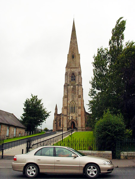 Church of the Most Holy Trinity, Cookstown. The church dates from 1860.